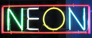 Author: Rolf Süssbrich Date: 10/2005 Own picture